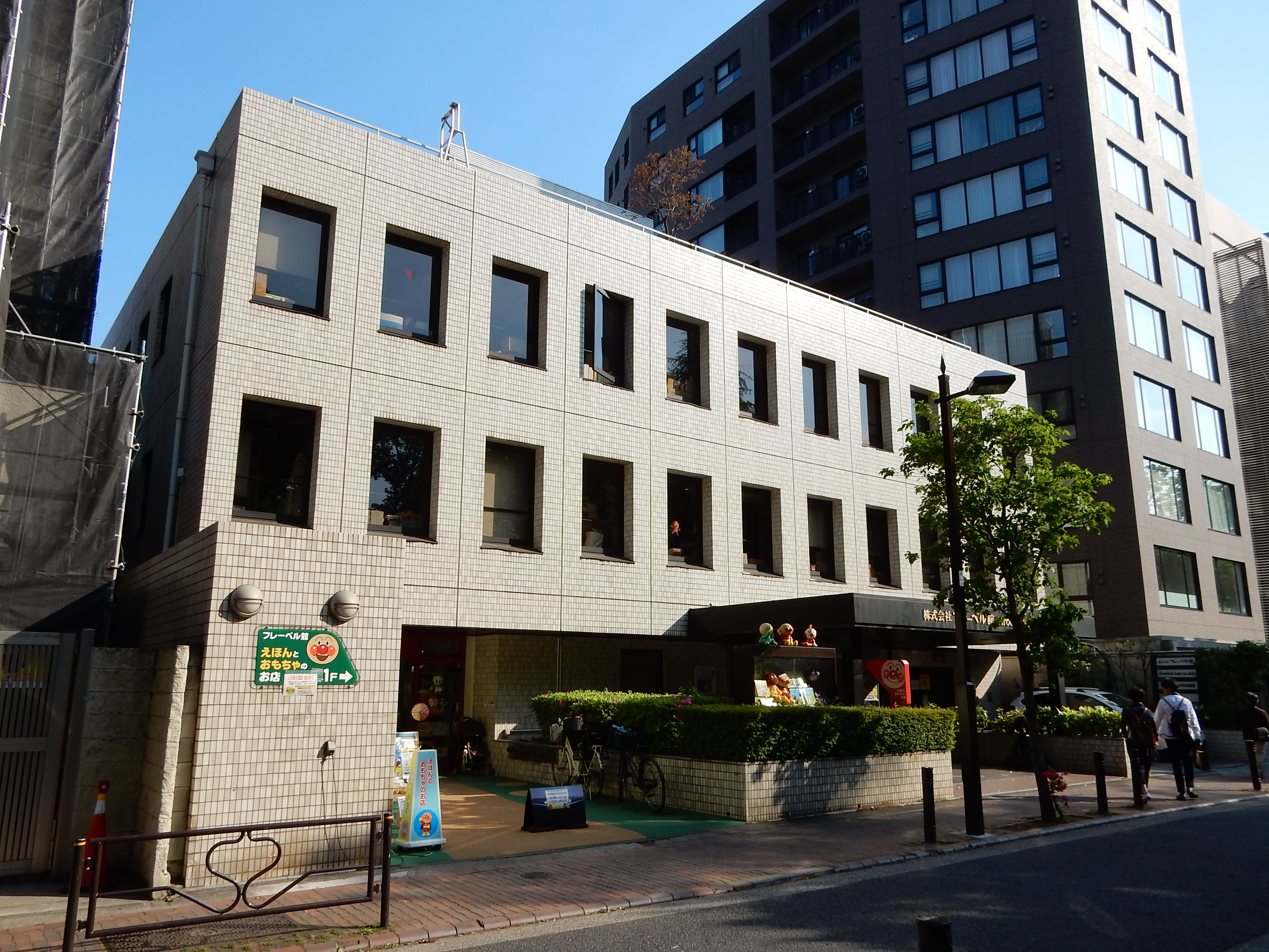 Froebel-kan (フレーベル館 Furēberu-kan), located at Hon-komagome, Bunkyo, Tokyo, Japan